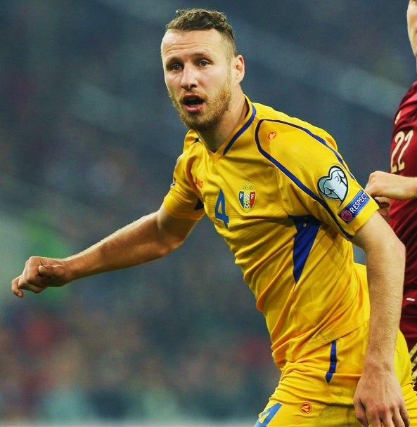 Victor Golovatenco